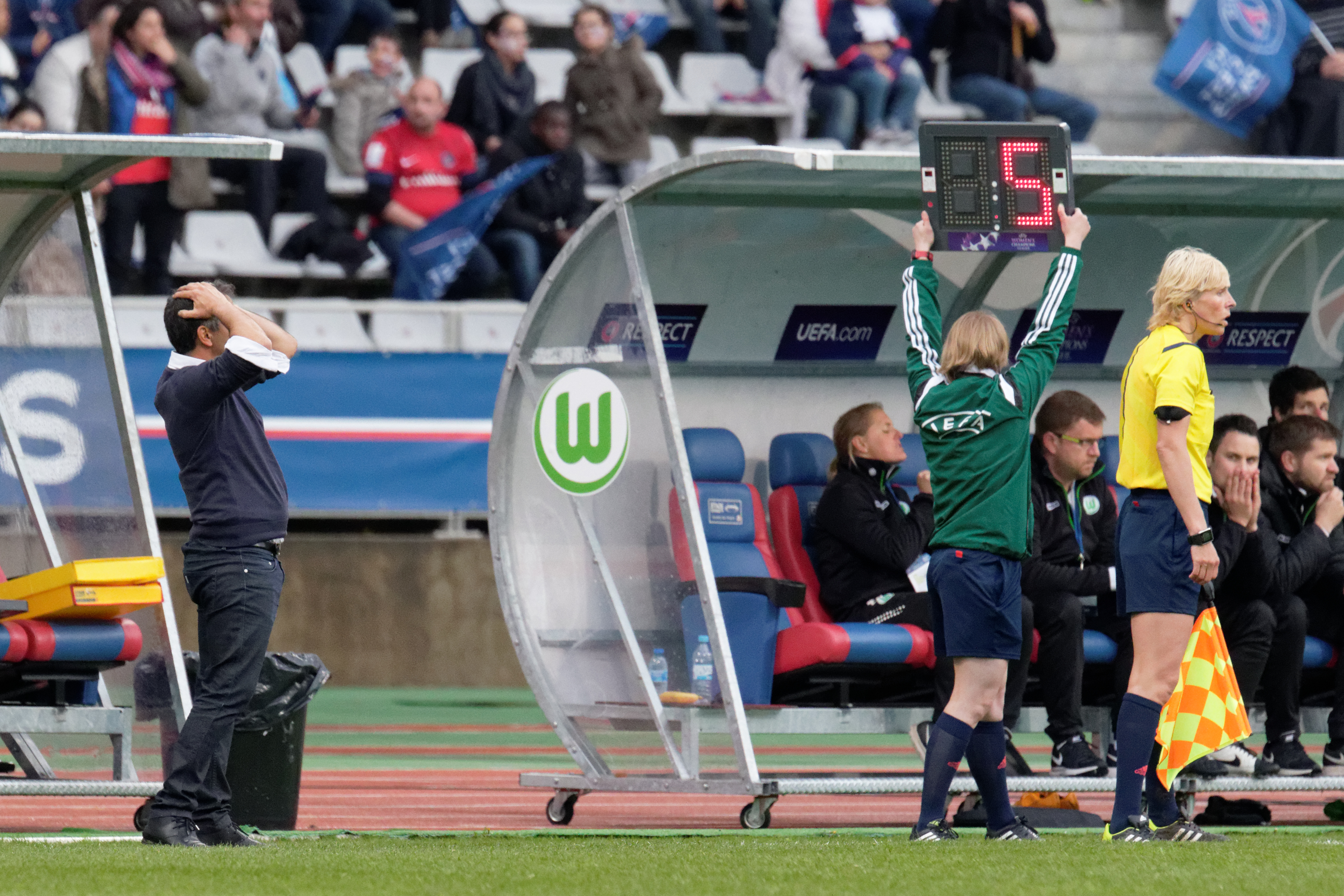 UEFA Women's Champions League, PSG - Wolfsburg, 26 April 2015.